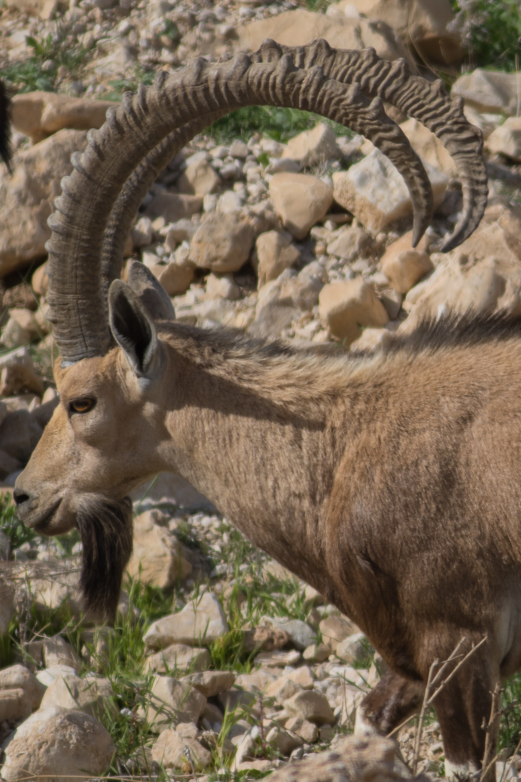 Nubian ibex (Capra nubiana), Israel